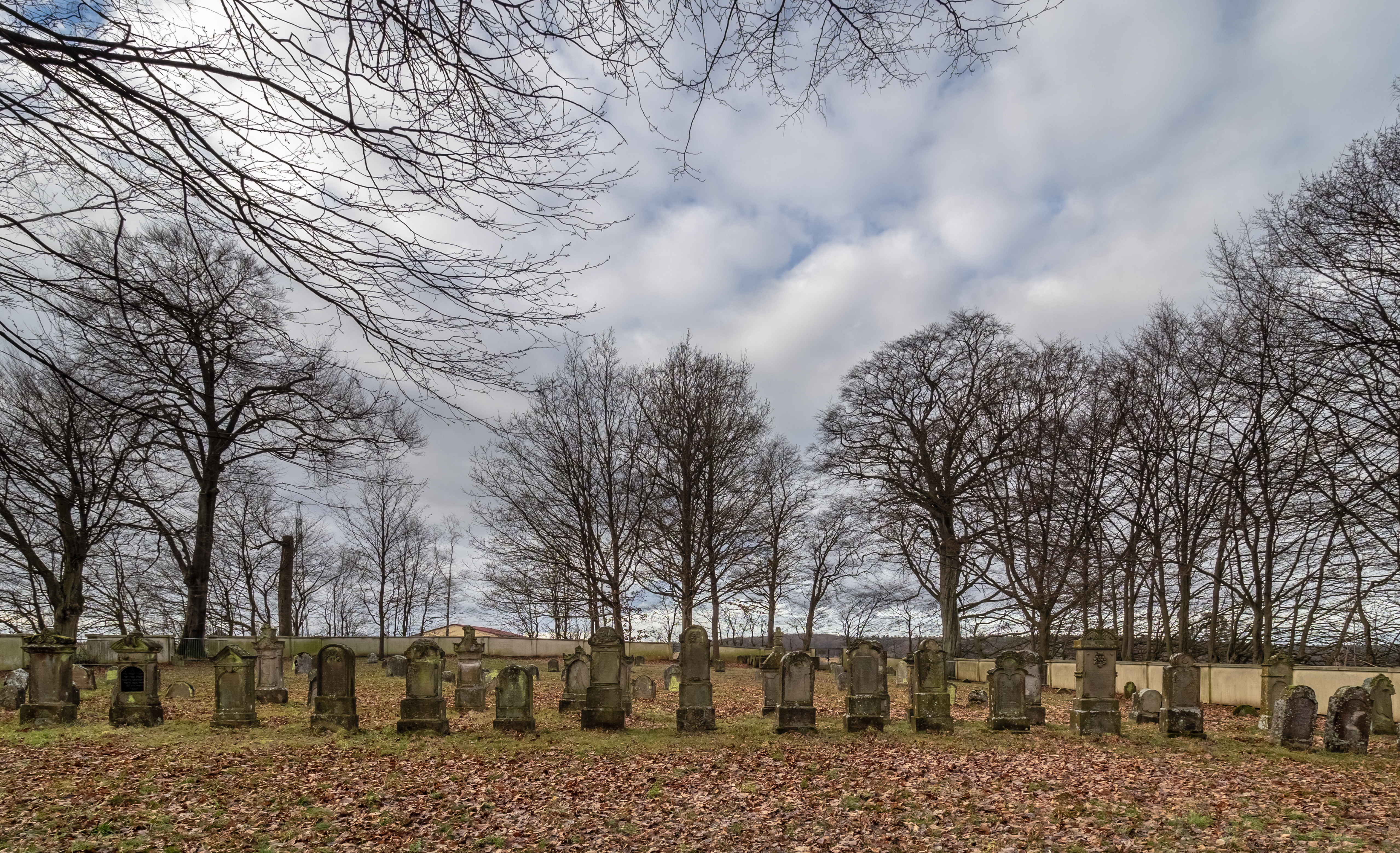 Jewish cemetery Lisberg